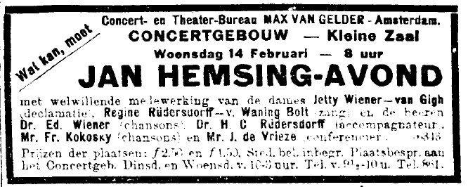 Advertisement for a benefit cabaret performance in the Dutch paper Algemeen Handelsblad, 10 February 1923.